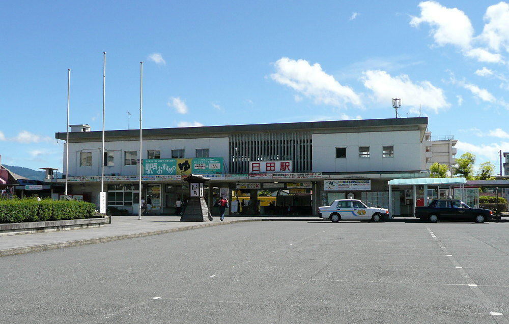 Hita Station, Hita City, Oita, Japan